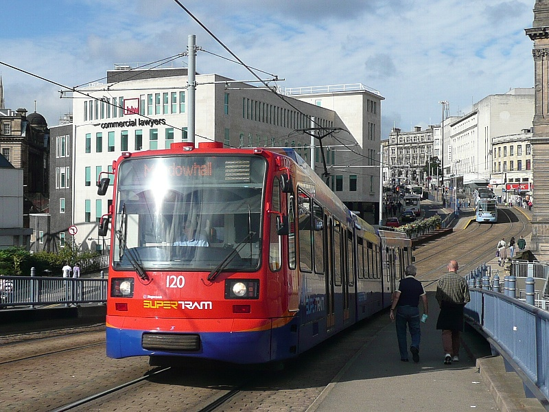 Sheffield Supertram at Park Square Bridge